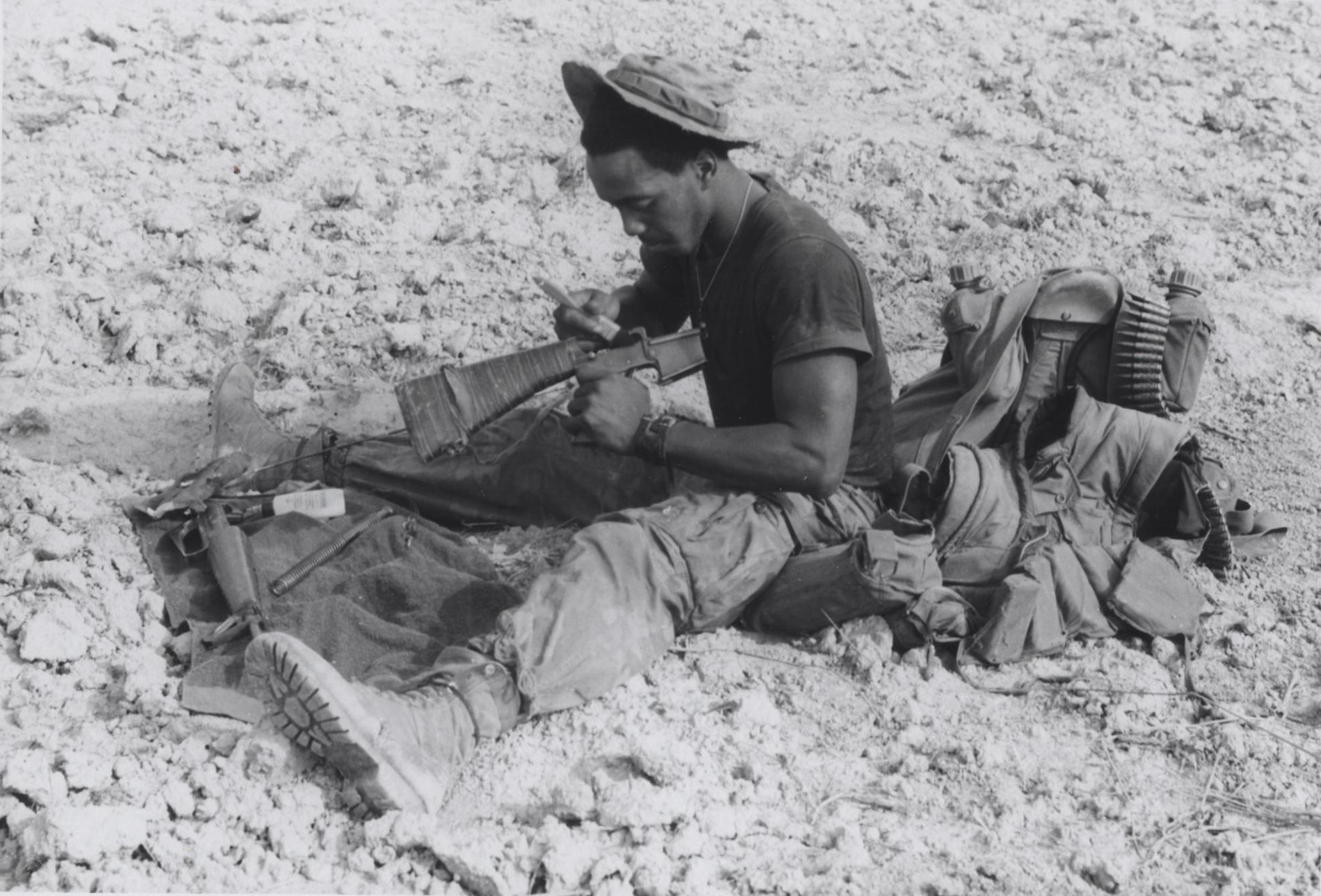 "Dustbowl Duster: Sitting in the middle of a virtual dustbowl on Go Noi Island, Marine Private First Class Carl Witherspoon, 20 (Washington, DC) pauses to clean his M-16 rifle. Under battle conditions of Operation Pipestone Canyon a clean rifle is a must as Da Nang, Vietnam, known as the ‘Rice Triangle’ (official USMC photo by Corporal G. W. Wright)." From the Jonathan Abel Collection (COLL/3611), Marine Corps Archives & Special Collections. OFFICIAL USMC PHOTOGRAPH